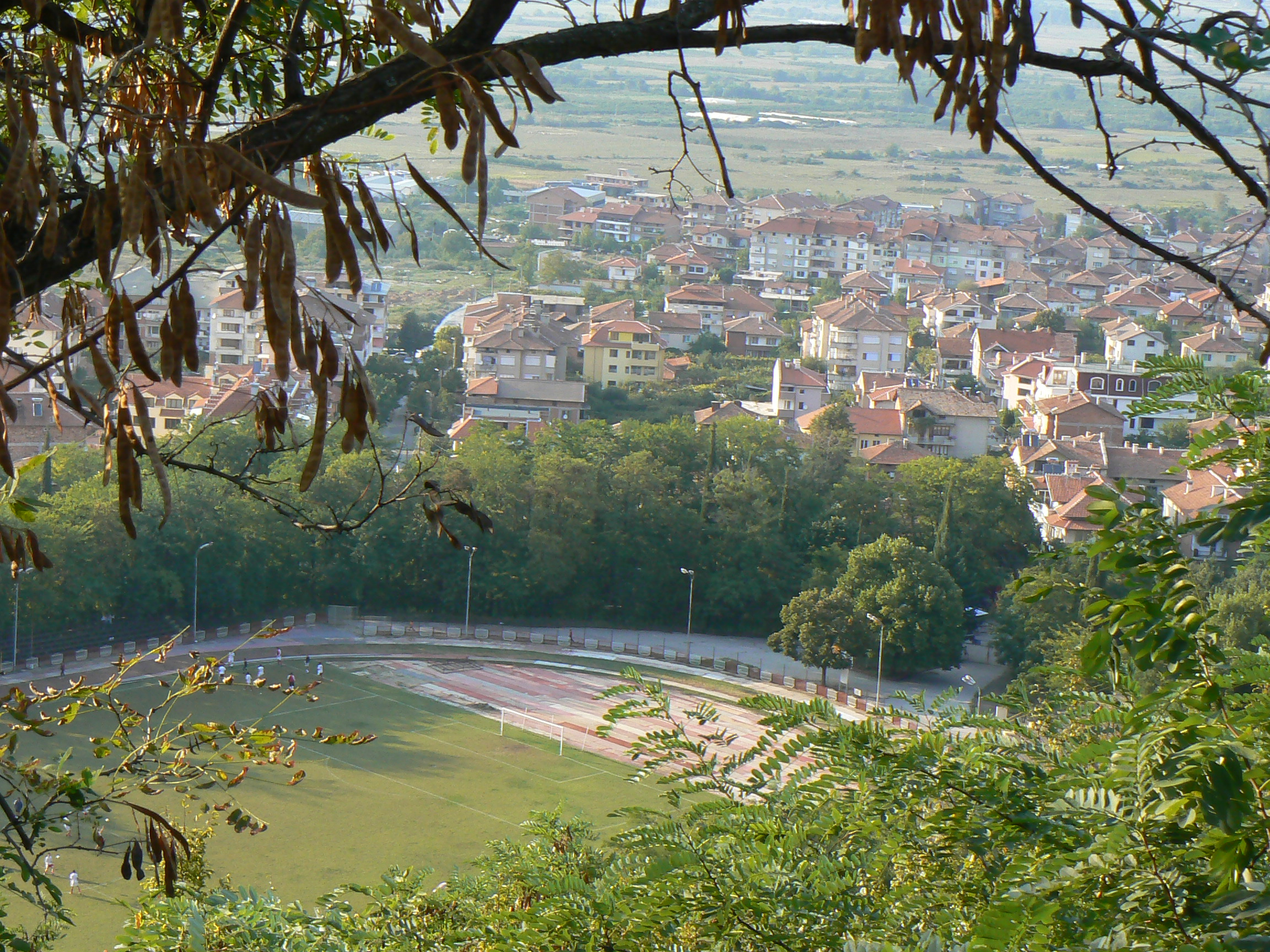 Sports stadium "Tzar Samuil" in Petrich, Bulgaria